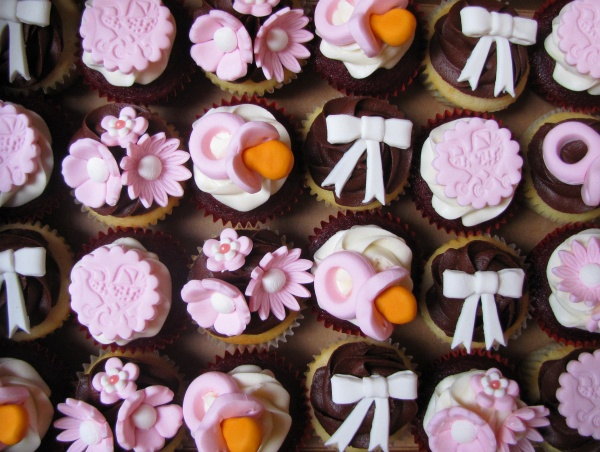 Vanilla and red velvet cupcakes frosted with chocolate and vanilla buttercream topped with handmade fondant baby shower decorations.